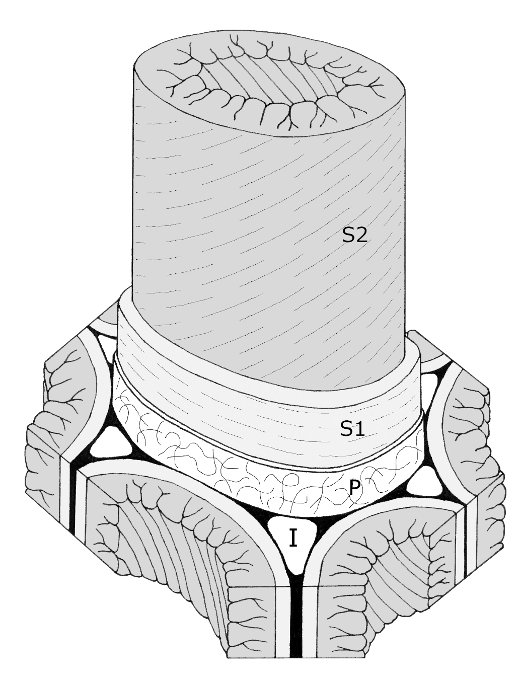 Cell wall model of a compression wood cell